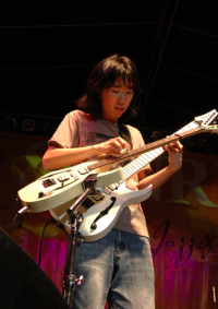 Personal photo collection, uploaded with consent of artist.